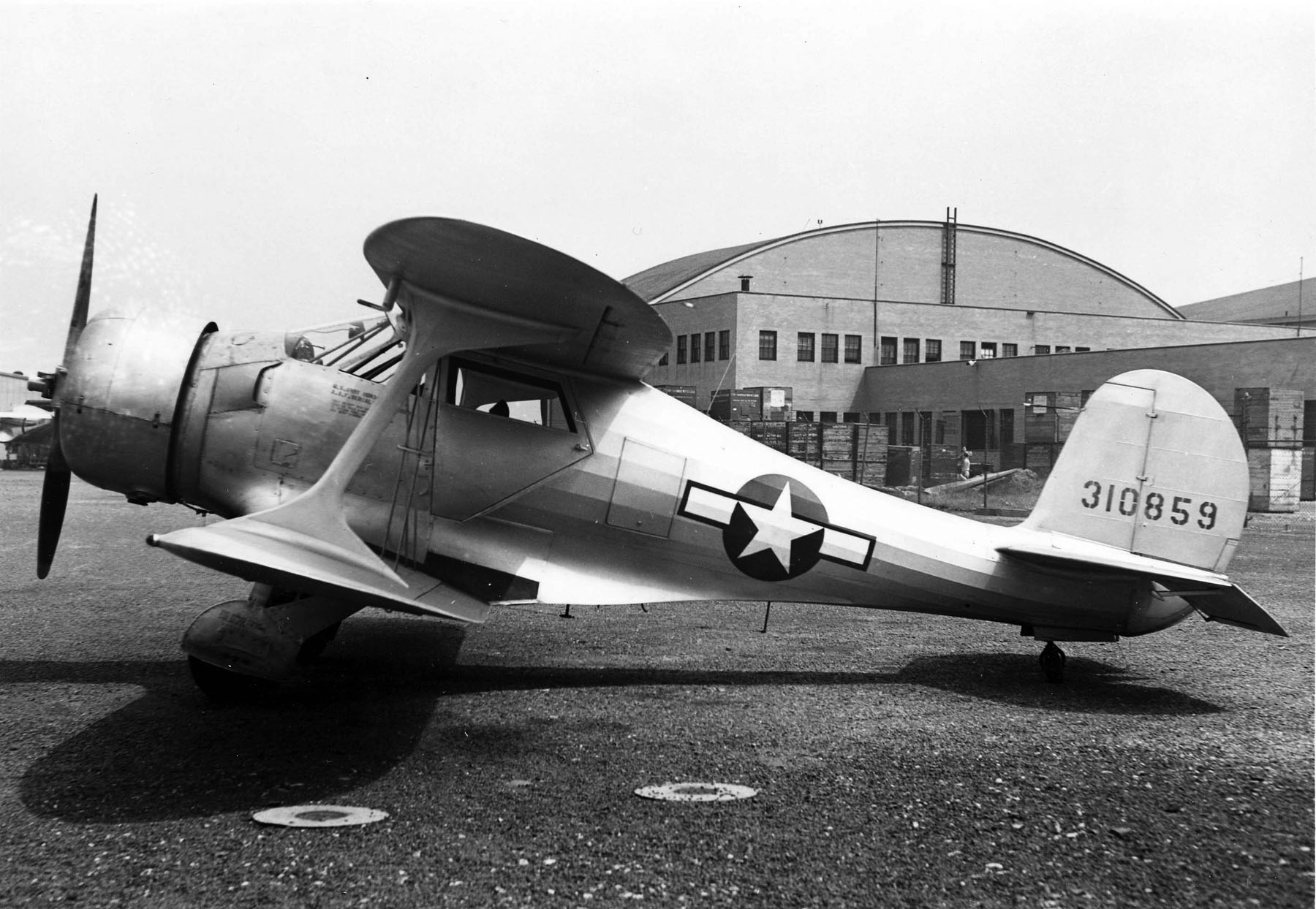 A U.S. Army Air Forces Beechcraft UC-43 Traveler (S/N 43-10859), circa in 1944.